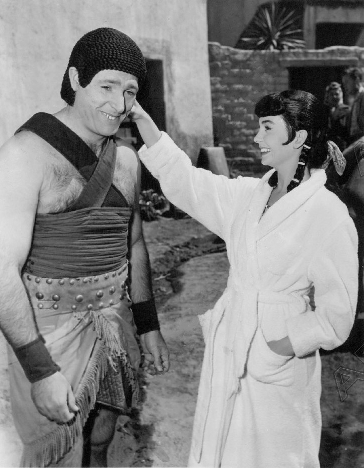 1954 - Fortune Gordien with actress Jean Simmons. Publicity photo for the American film The Egyptian (1954). According to the press release, he plays her body guard in the film.